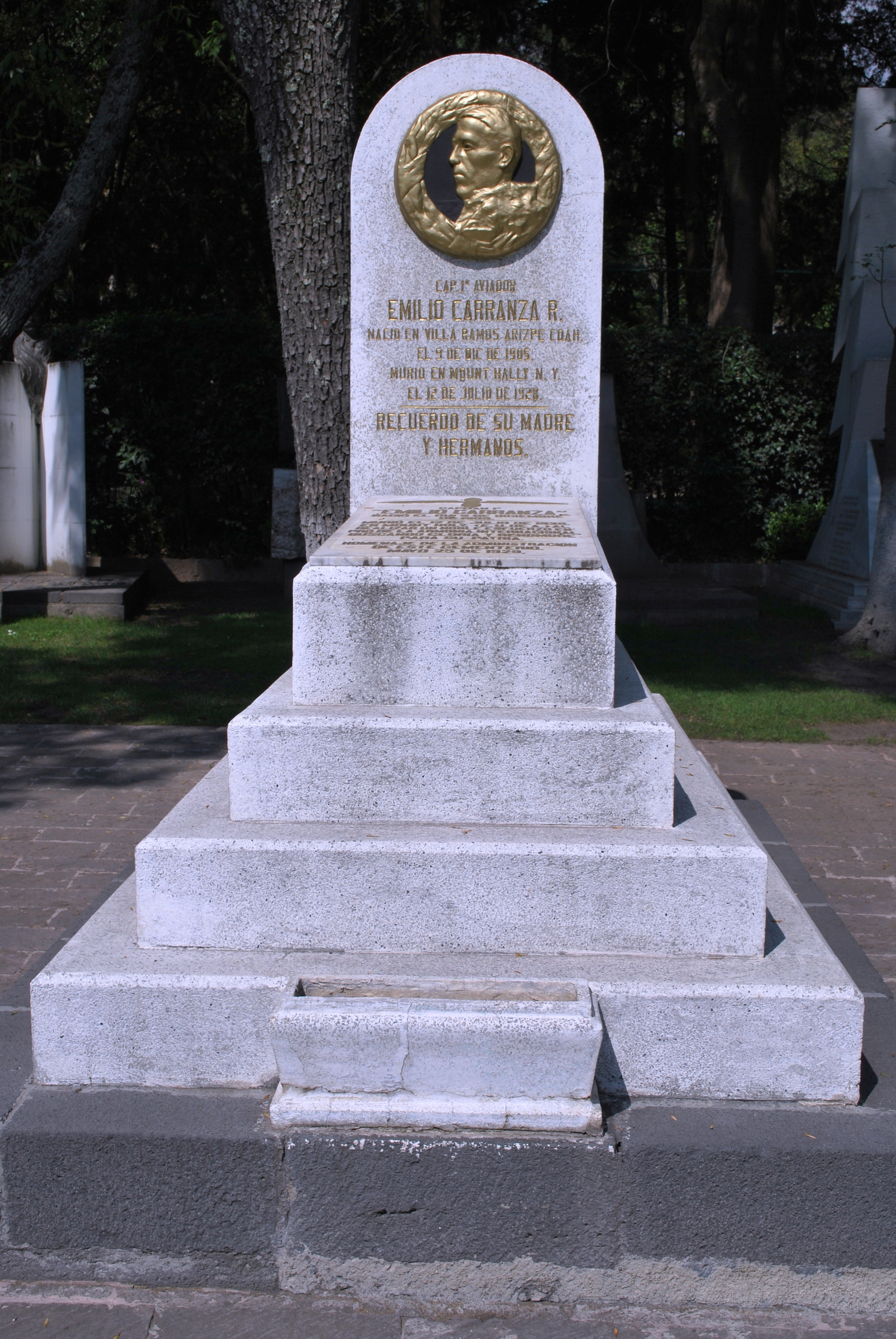 Tomb of avaitor Emilio Carranza R. at the Panteon Civil de Dolores cemetery in Mexico City